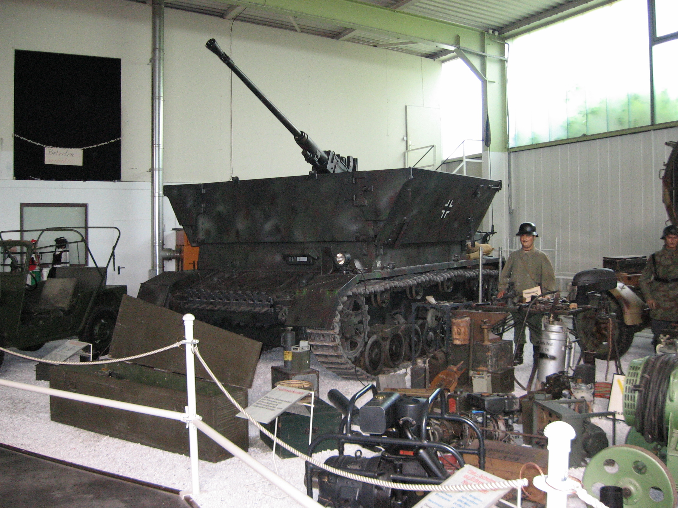 Flakpanzer IV "Möbelwagen" at the Auto- und Technikmuseum Sinsheim / Germany. Picture taken in may 2006 by Christian Kath (me).